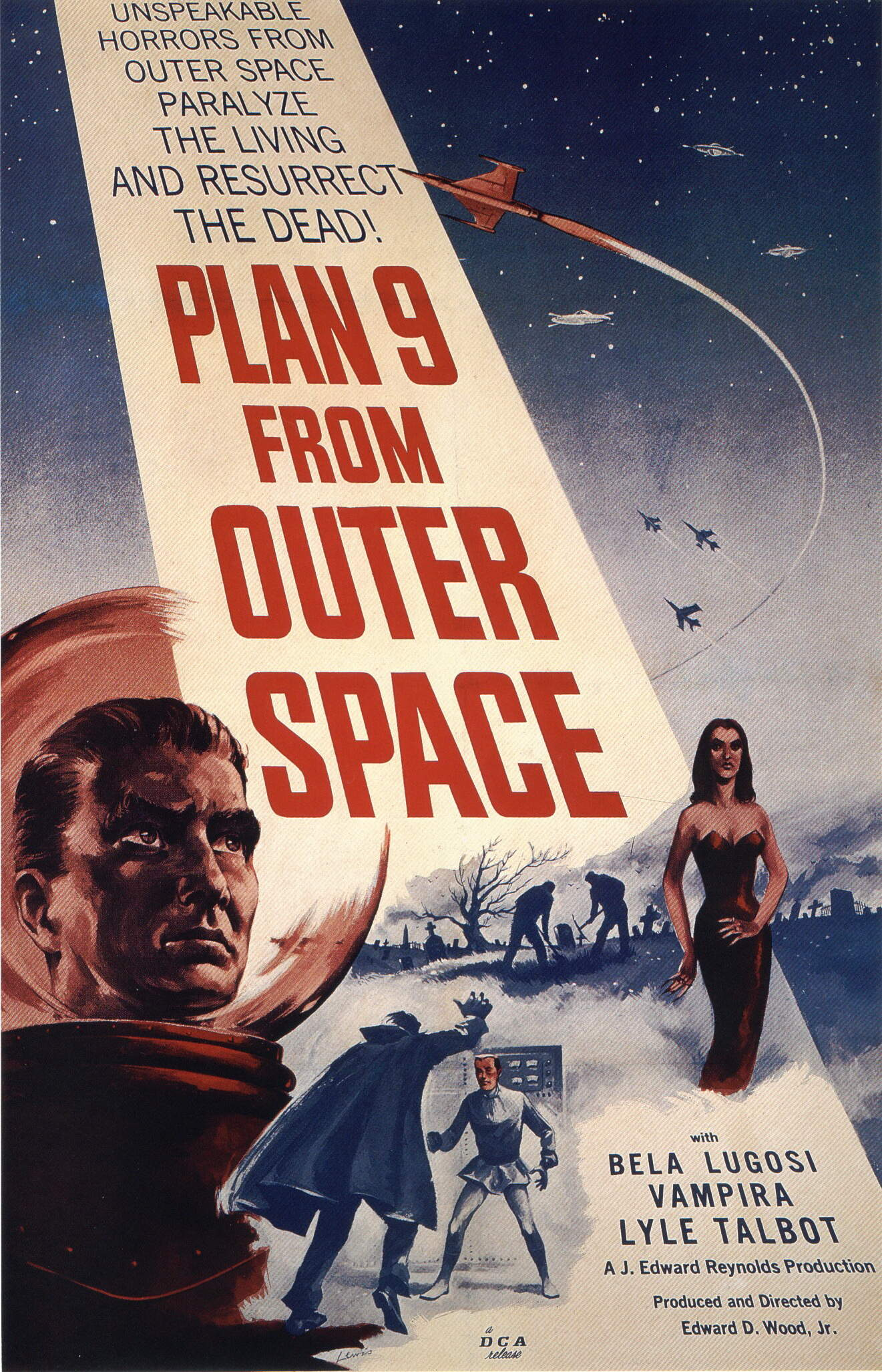 Film poster Plan 9 from Outer Space